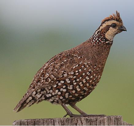 Image taken in Guanacaste, Costa Rica.